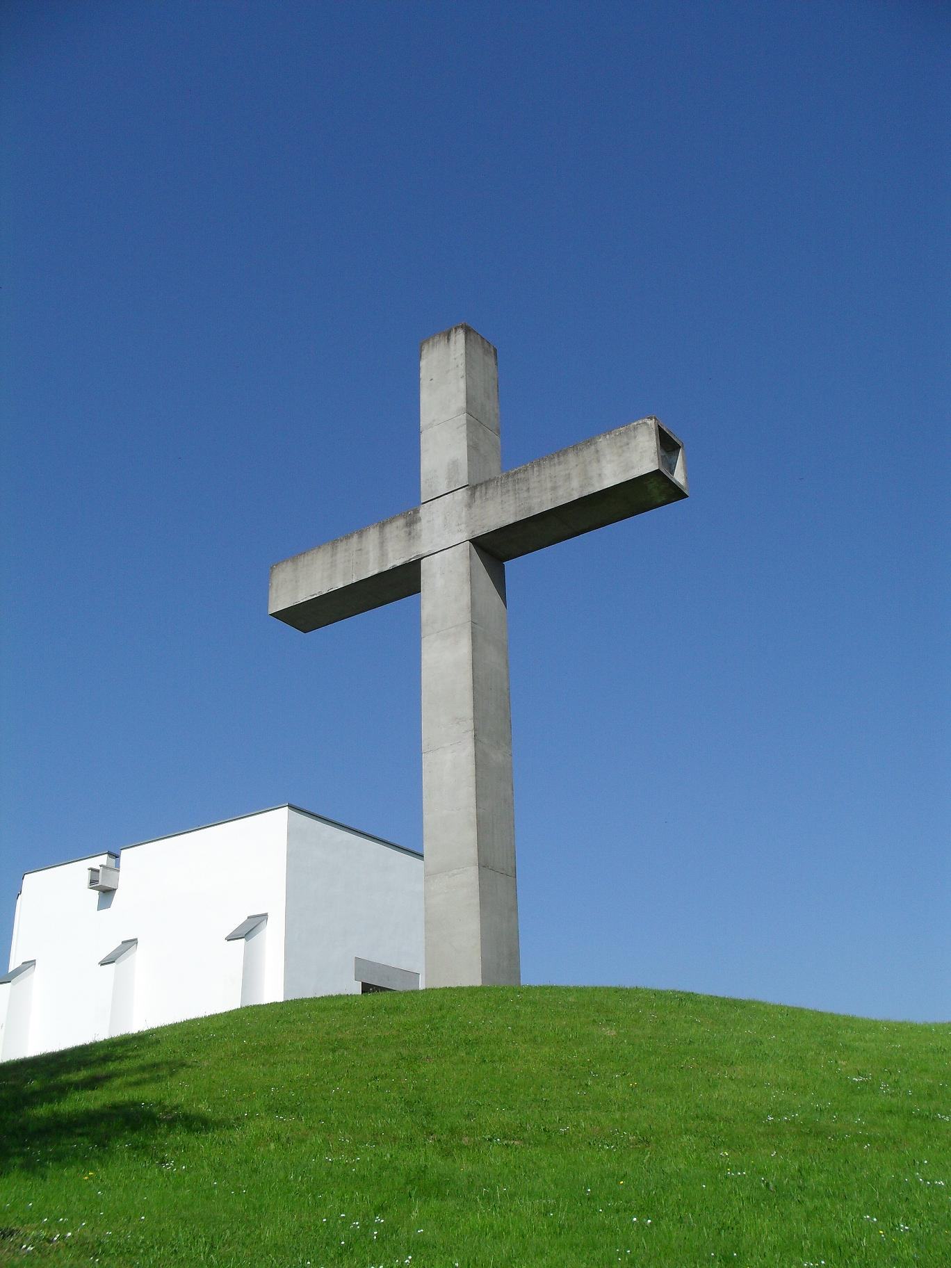 The Cross of Mogersdorf (monument of the Battle of Saint Gotthard in 1664)